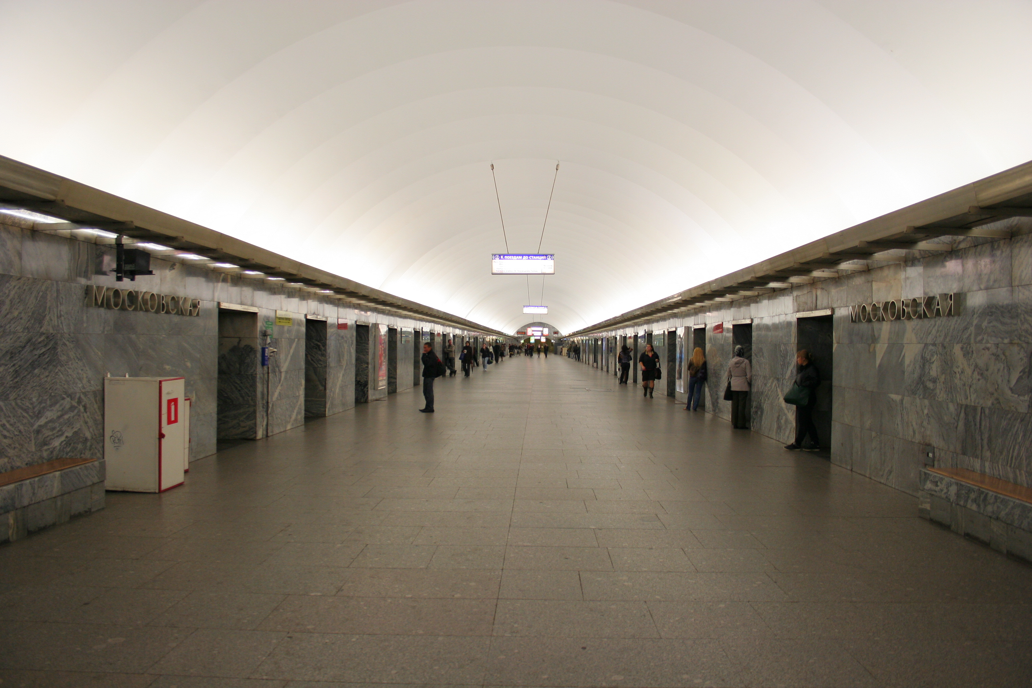 Moskovskaya station of Saint Petersburg Metro